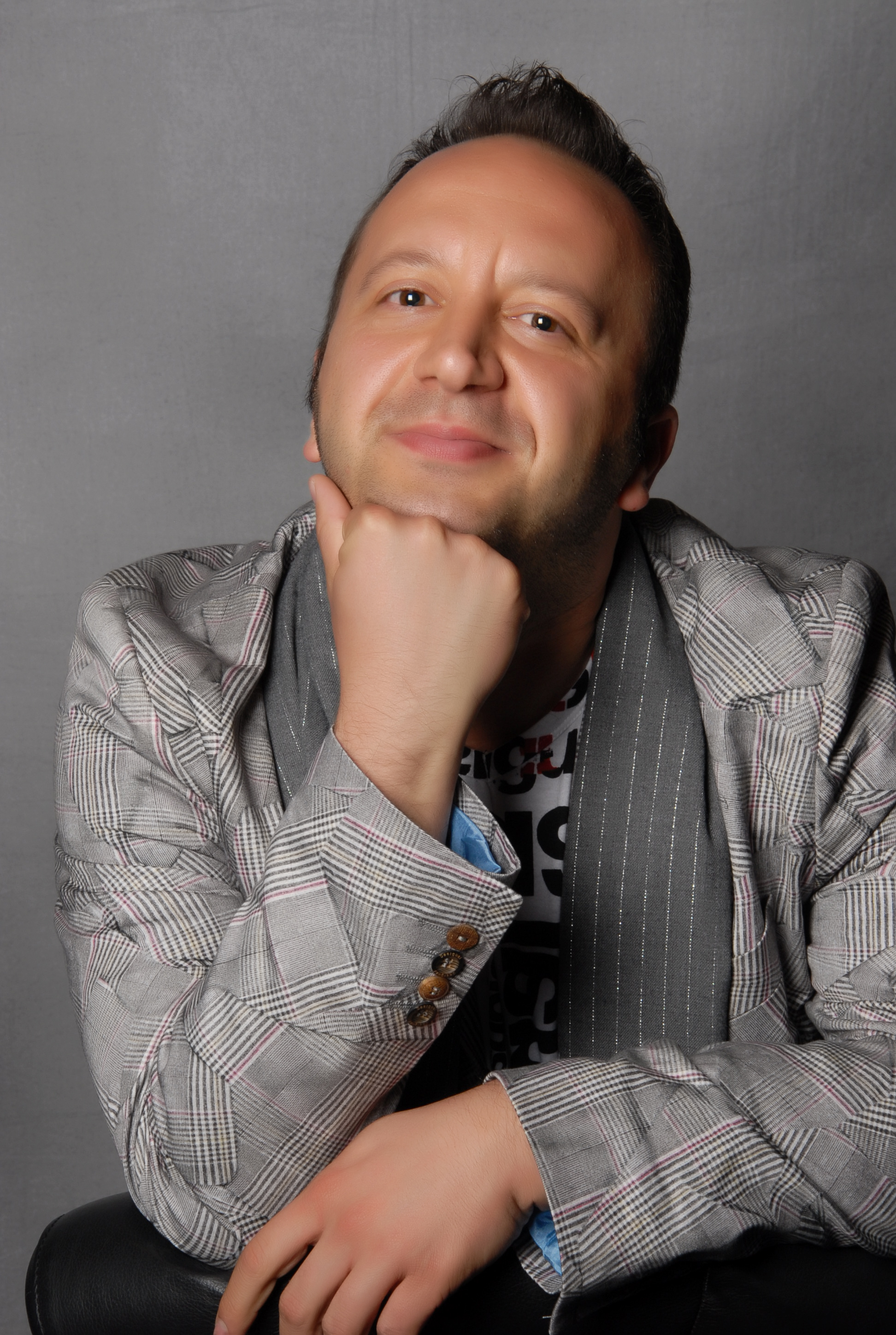 Ryan Carrassi portrait during a party on board the cruise ship MSC 'Fantasia'- Photo stage for press